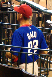 Description Paul Bako in his Phillies batting practice jersey Date16:53, 22 October 2009 (UTC)Source[1]AuthorFlickr user ensign_beedrill, cropped and uploaded by KV5 (Talk • Phils)Permission (Reusing this file) CC-BY-SA 16:53, 22 October 2009 . . Killervogel5 . . 177×261 (100 KB) Paul Bako in his Phillies batting practice jersey